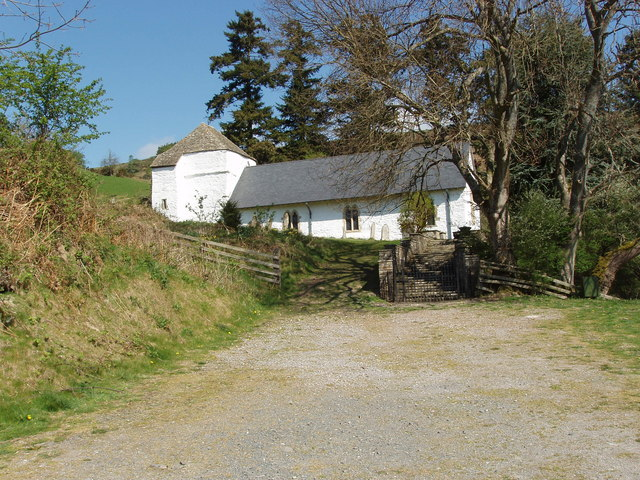 Pilleth Church, Powys., near to Pilleth, Powys, Great Britain. The Church of Our Lady of Pilleth, is above the site of the Battle of Pilleth, fought on St Alban's Day, June 22nd 1402, When Owen Glendower won a notable victory over the English Army led by Sir Edmond Mortimer.